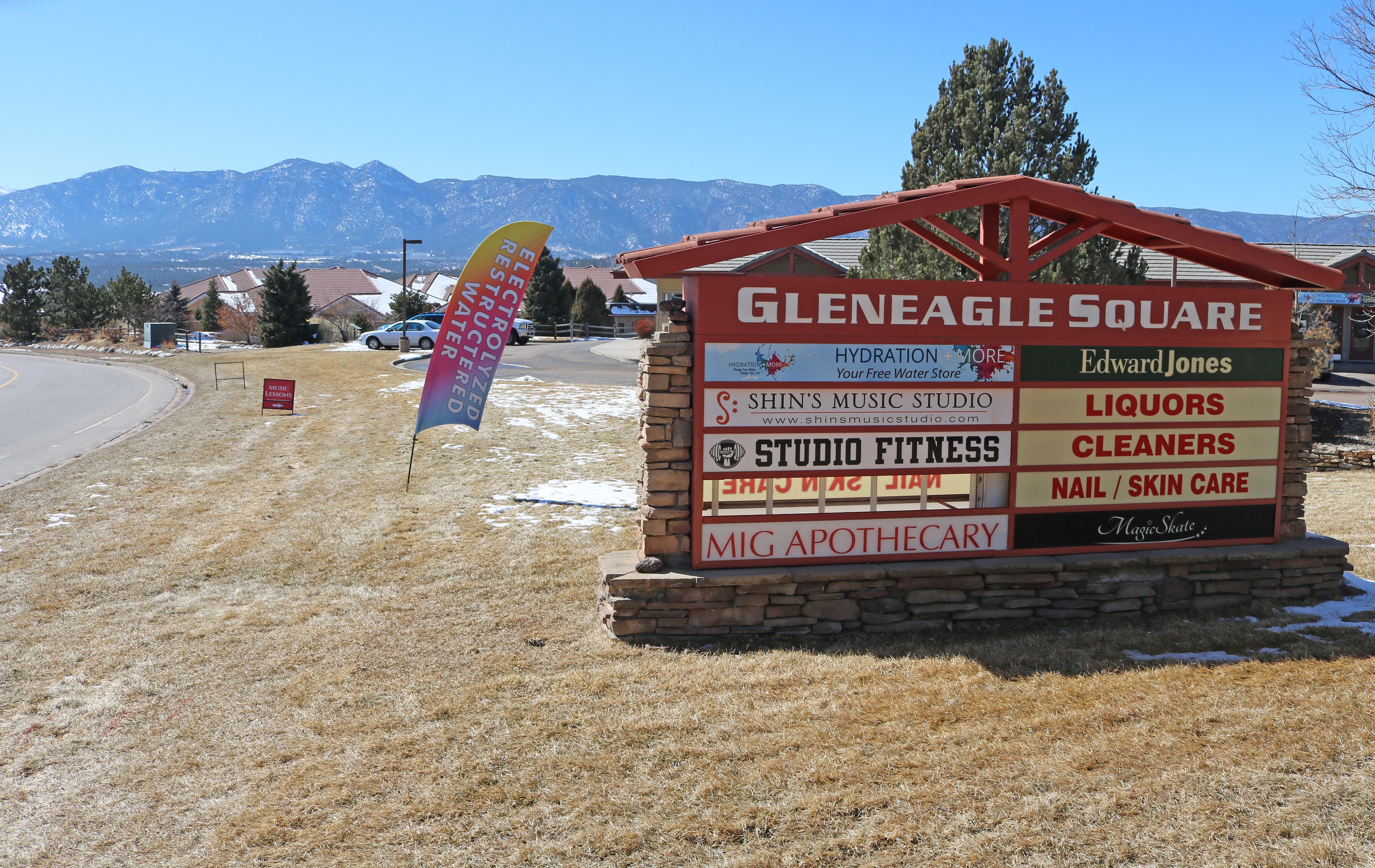 A view of part of Gleneagle, Colorado, a census-designated place in El Paso County. The view shows part of the Gleneagle Square shopping center, with the Rampart Range in the distance.